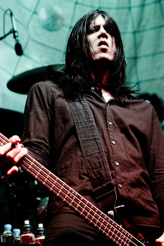 Nick Douglas is the bass player in Doro's band since 1990. Doro Pesch @ Classic Rock Festival Hamburg